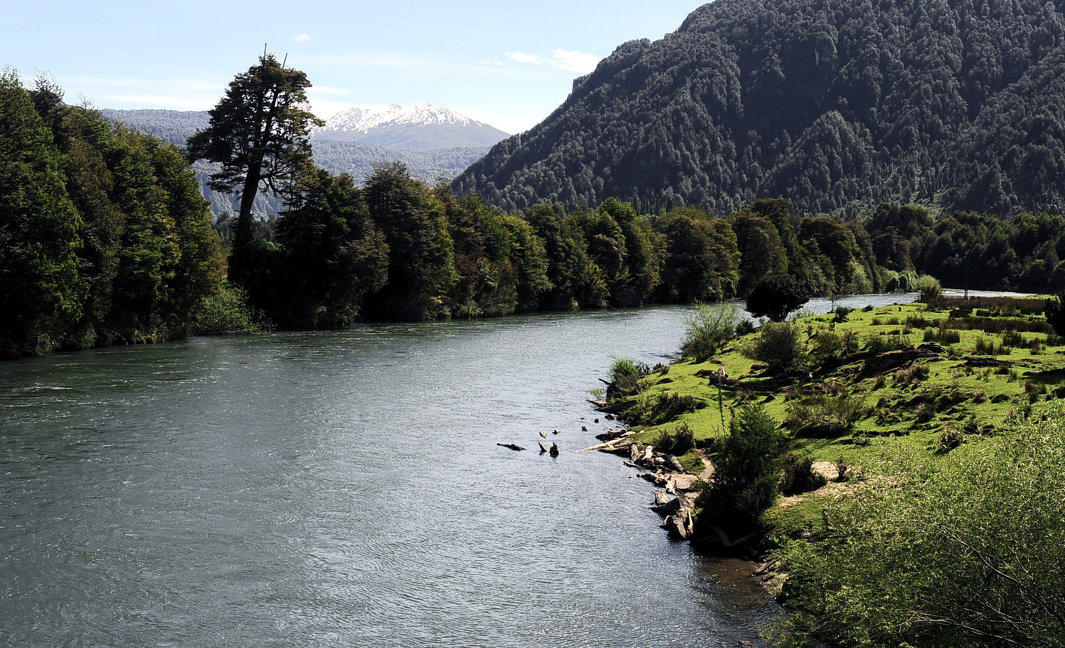 Mañihuales River, Aysén, Chile